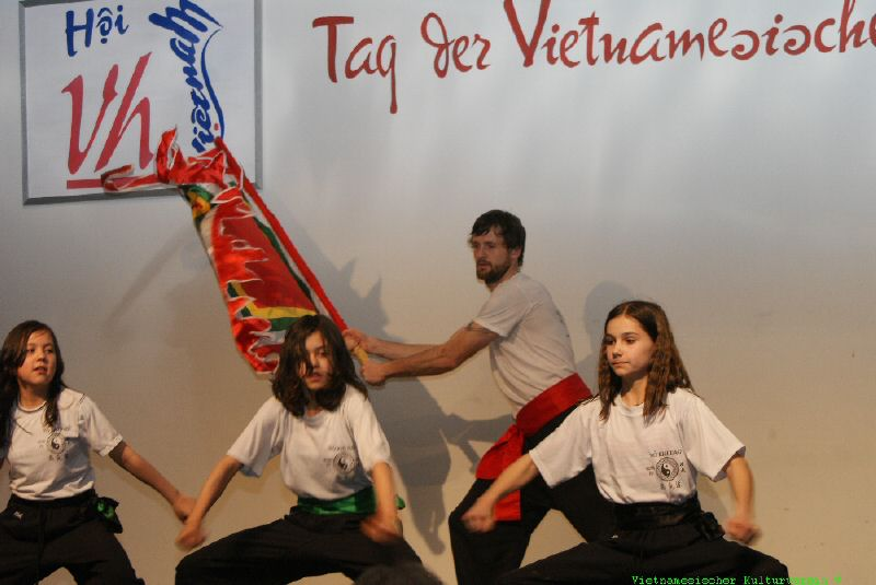 vo khi dao show